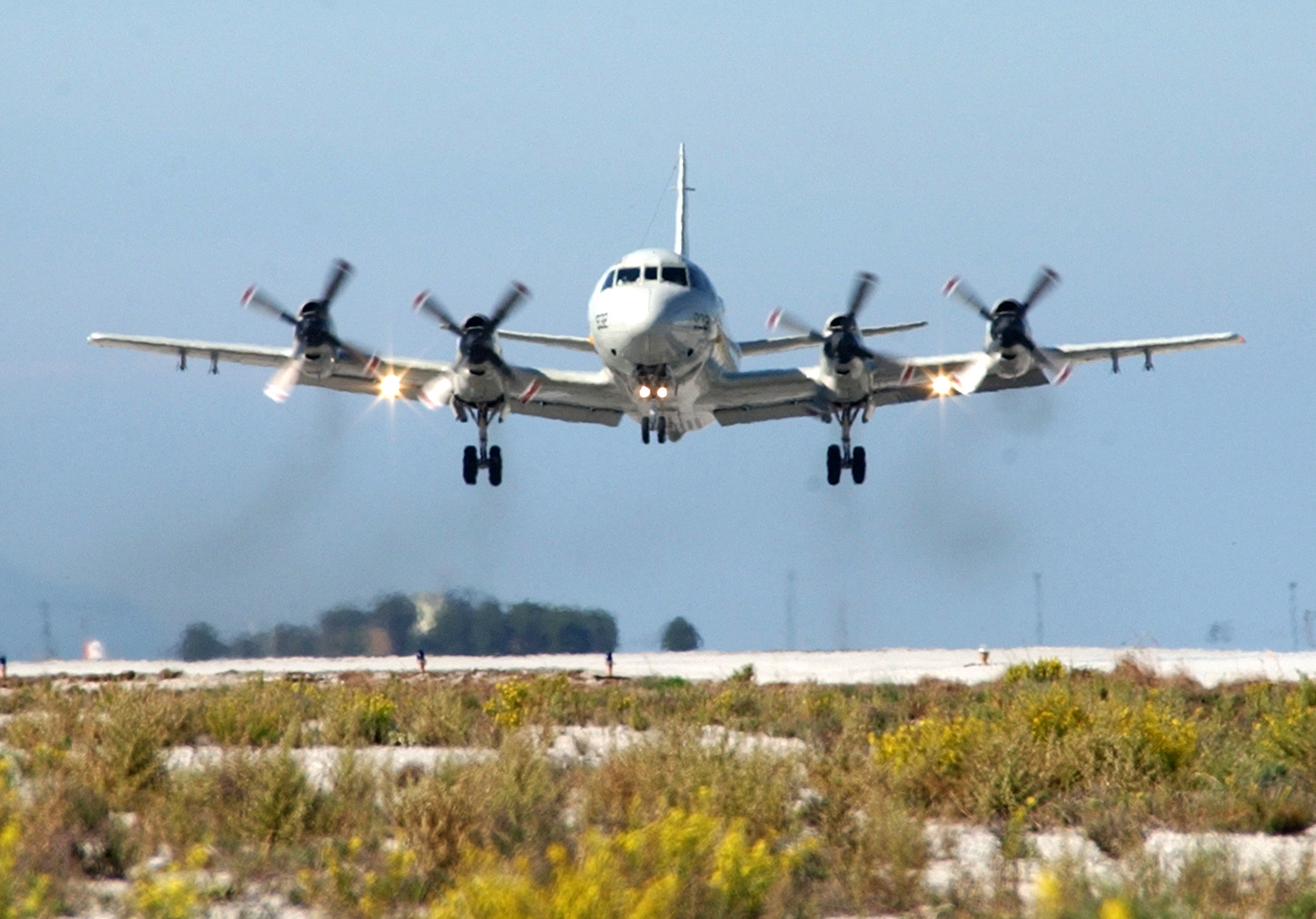 021101-N-0780F-004 Souda Bay, Crete, Greece (Nov. 1, 2002) -- A Navy P-3C “Orion” aircraft, assigned to the “War Eagles” of Patrol Squadron One Six (VP-16) lifts off to begin another patrol mission in the region. VP-16, a Jacksonville, Fla.-based squadron, is currently on a scheduled deployment to the Mediterranean theater in support of Operation Enduring Freedom. The P-3C is a multi-mission aircraft providing Anti-Submarine Warfare (ASW) and Anti-Surface Warfare (ASUW) capabilities. VP-16 utilizes a wide range of communications, detection, monitoring, reconnaissance and navigation systems to perform their mission. In addition to advanced electronics, the P-3C can deliver an impressive mix of torpedoes, bombs, and missiles along with pinpoint mine-laying capabilities. U.S. Navy photo by Paul Farley. (RELEASED)